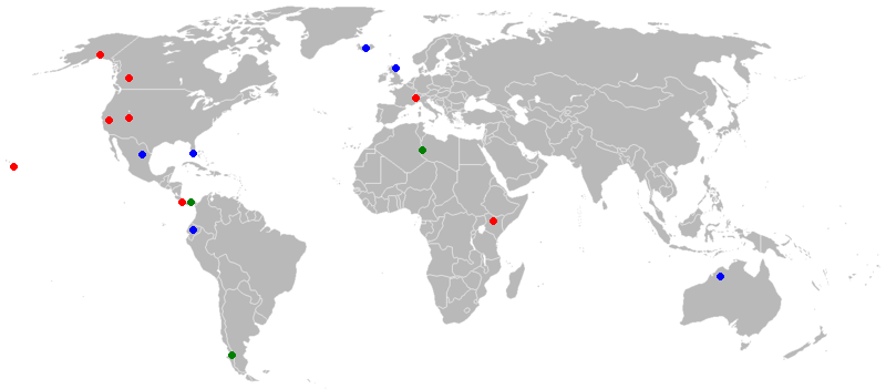 Locations visited by Bear Grylls for Man vs. Wild